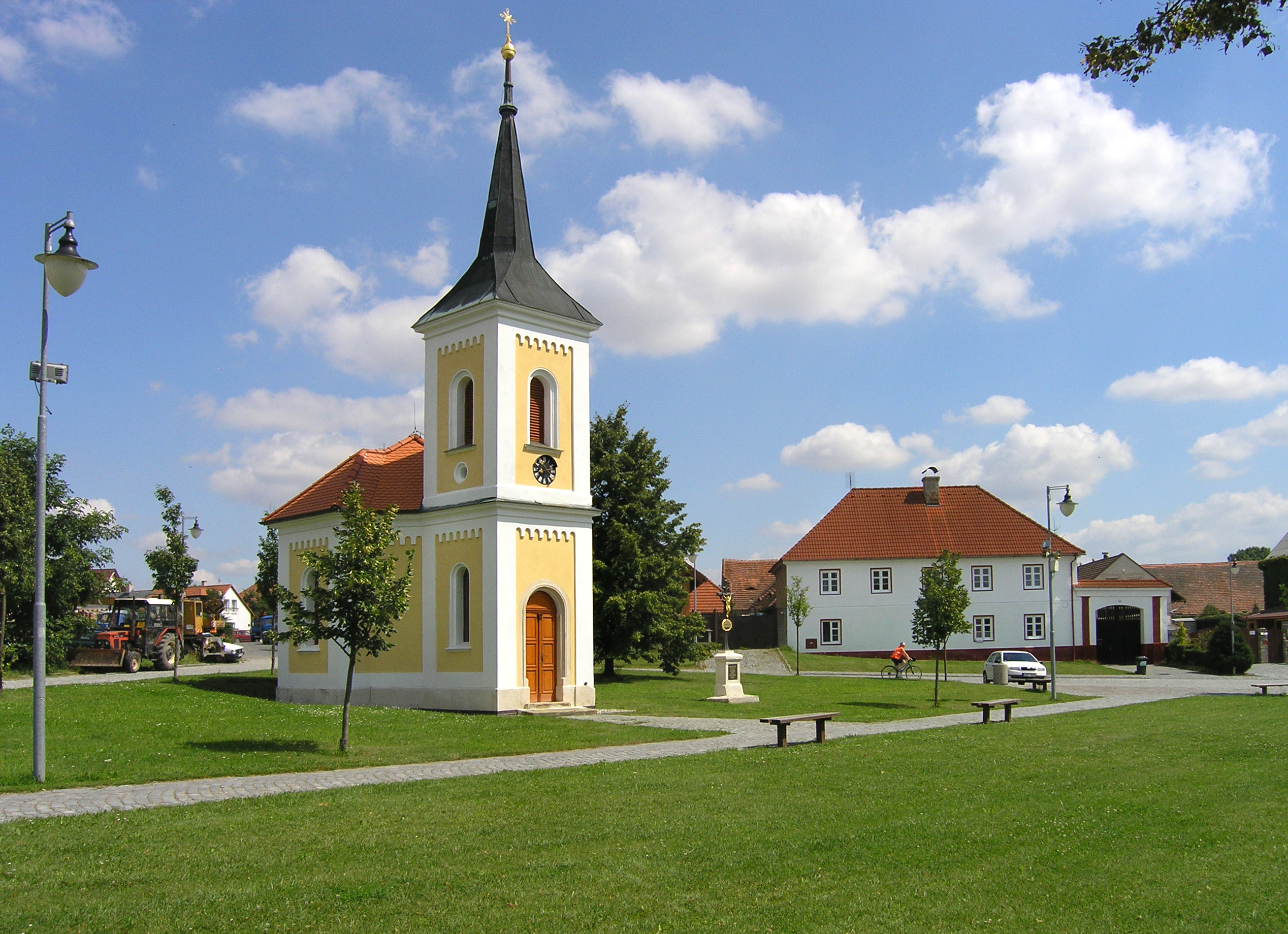 Common with chapel of St. Florian in Kyšice, Czech Republic